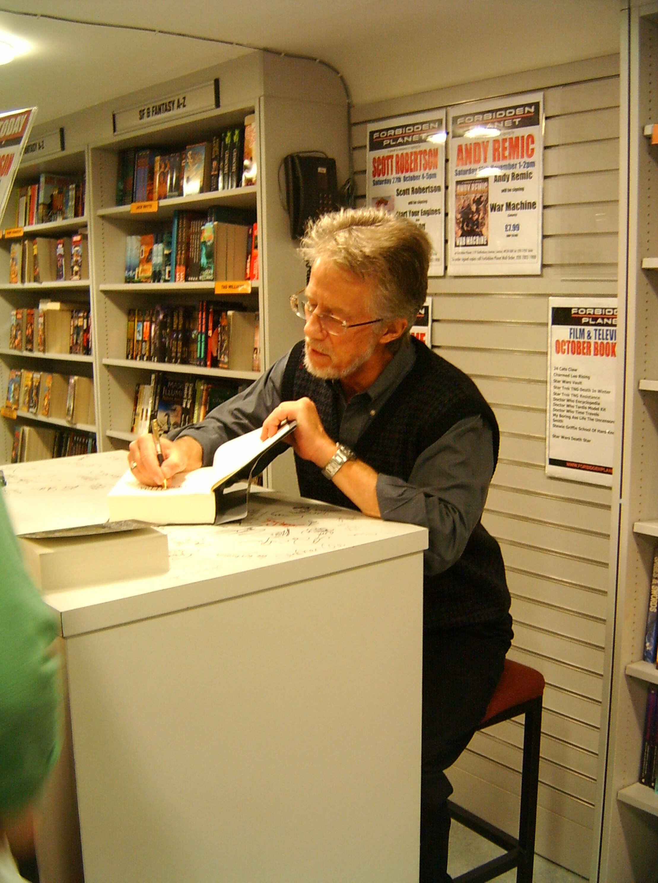 Stephen R. Donaldson on a 2007 book tour.